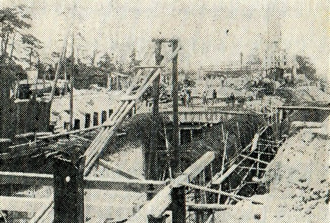 Minatogawa station in 1928